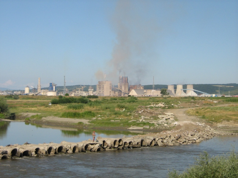 Azomures chemical factory